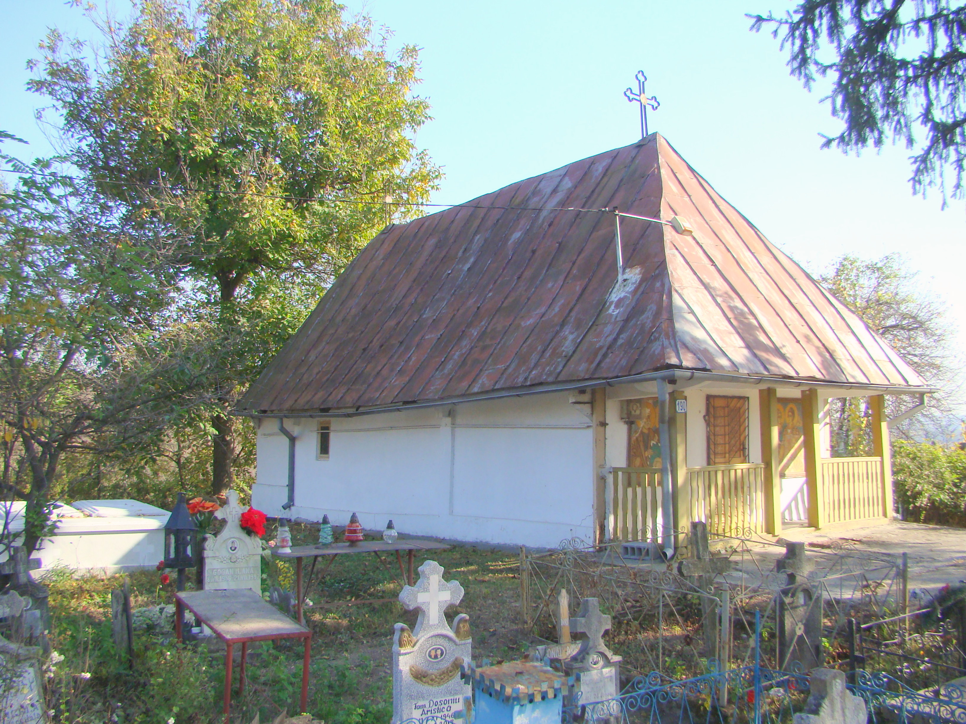 Saint George's wooden church in Valea Mânăstirii, Gorj